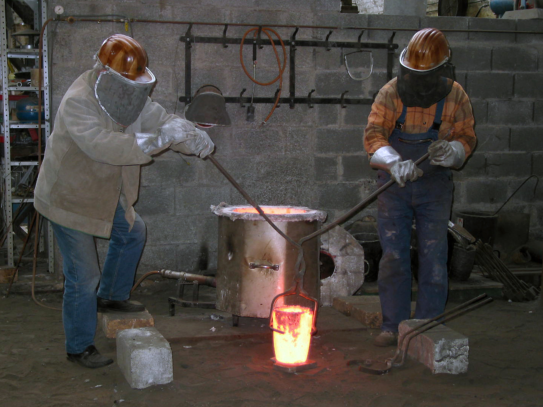 The Foundry workers.